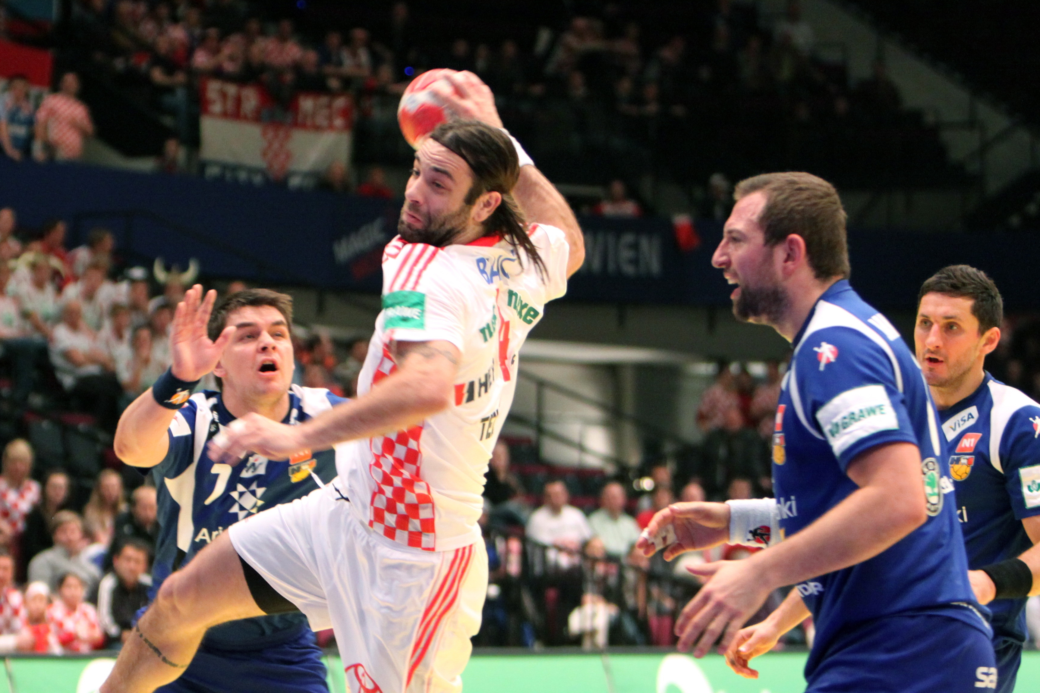 2010 European Men's Handball Championship Group I: Croatia vs Iceland 26:26 — Ivano Balić (Croatia national handball team) scores, Arnór Atlason (left) (Iceland national handball team) is to late